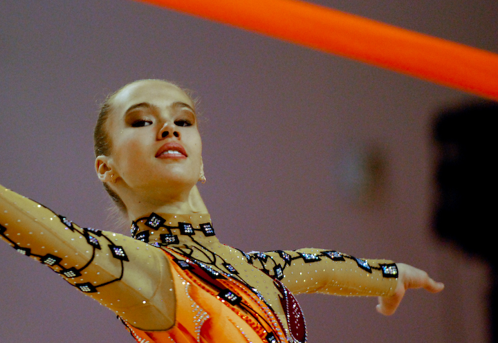 Aleksandra Ermakova (RUS) won all four aparatus' at the 2008 Baltic Hoop rhythmic gymnastics meeting in Riga, Latvia.